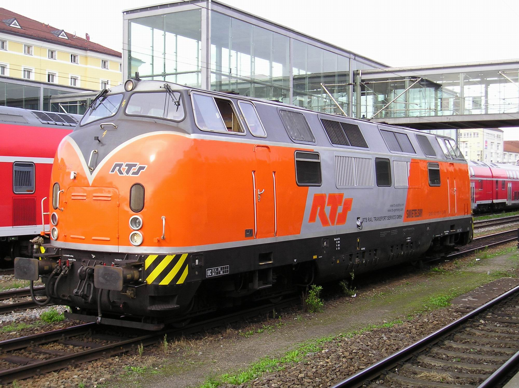 Diesel locomotive 221 105 , now belonging to Rail Transport Service GmbH, in the main station of Regensburg (Bavaria)